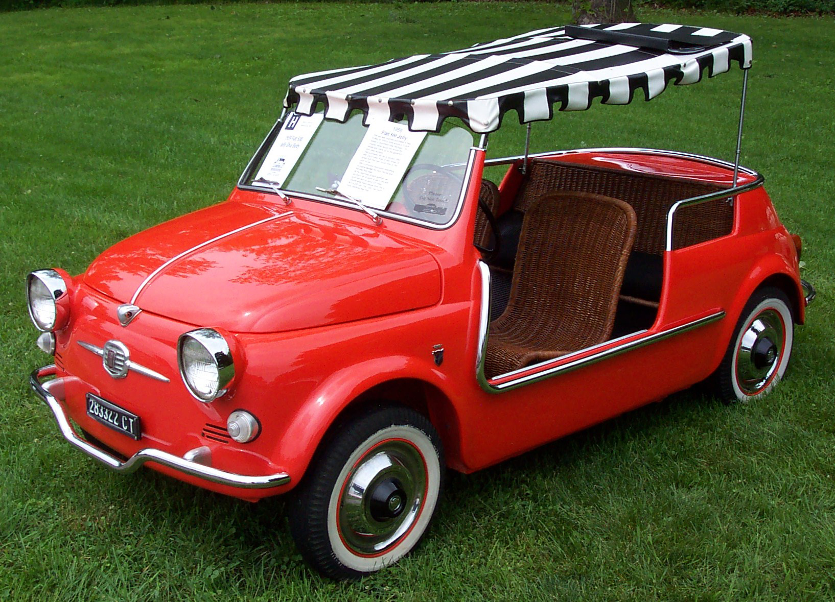 A Fiat 500 Jolly by Ghia, sporting the huge American sealed-beam headlight pods.